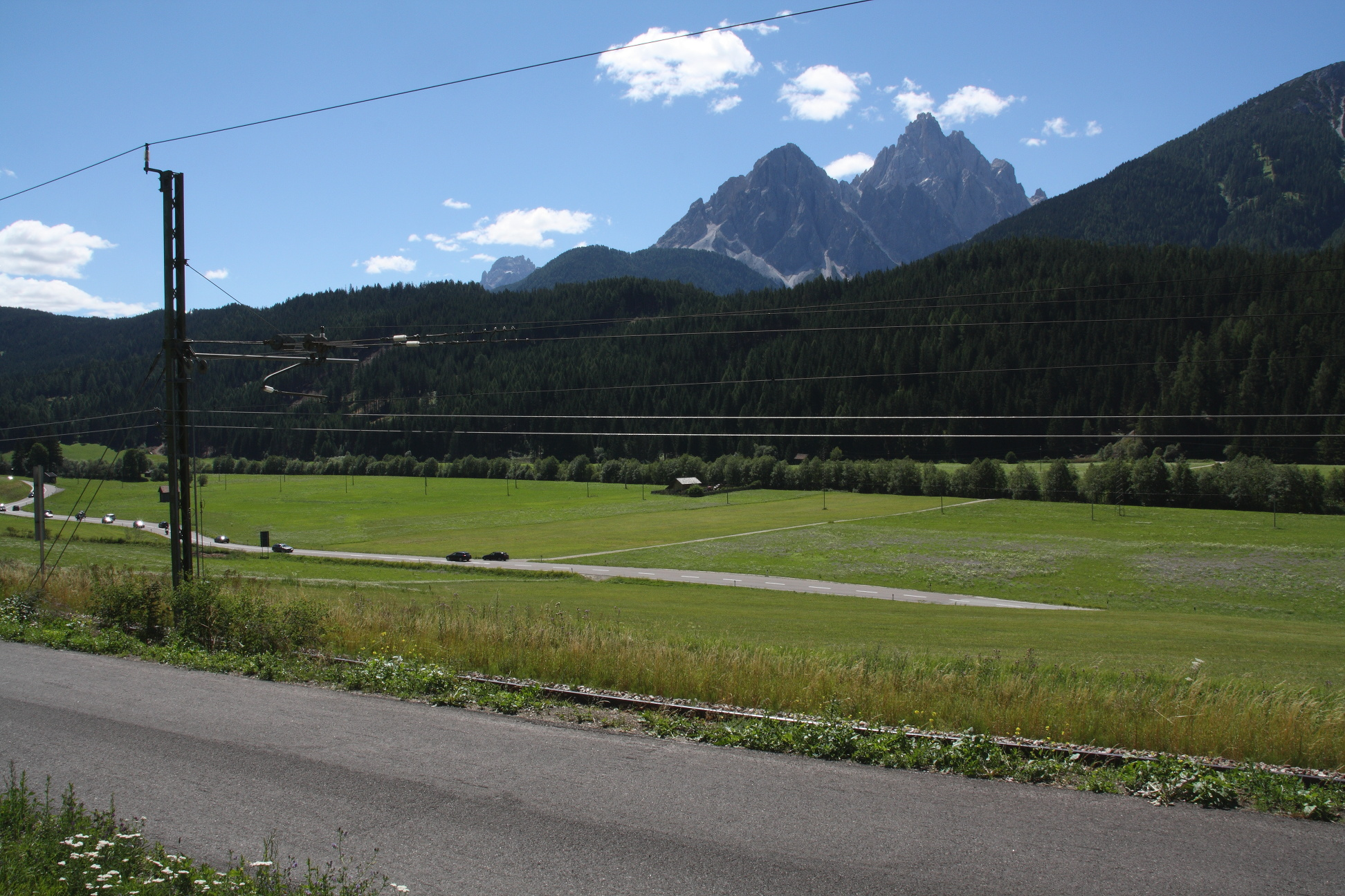 Drava cycleway, Puster Valley railway and Puster Valley road, in background: mountain "Punta dei Tre Scàrperi / Dreischusterspitze"